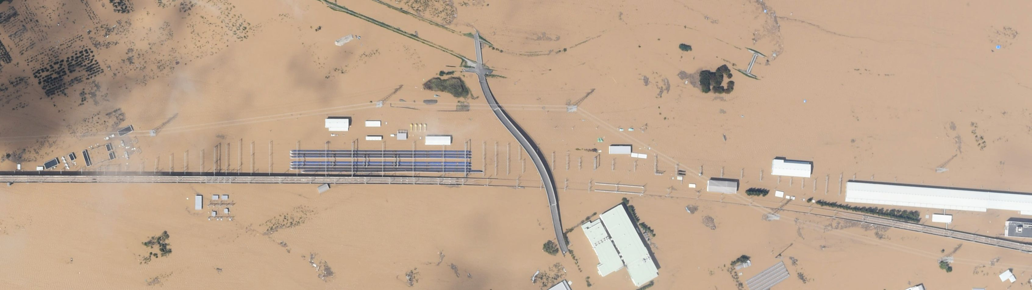 JR East Nagano Shinkansen Rolling Stock Center.